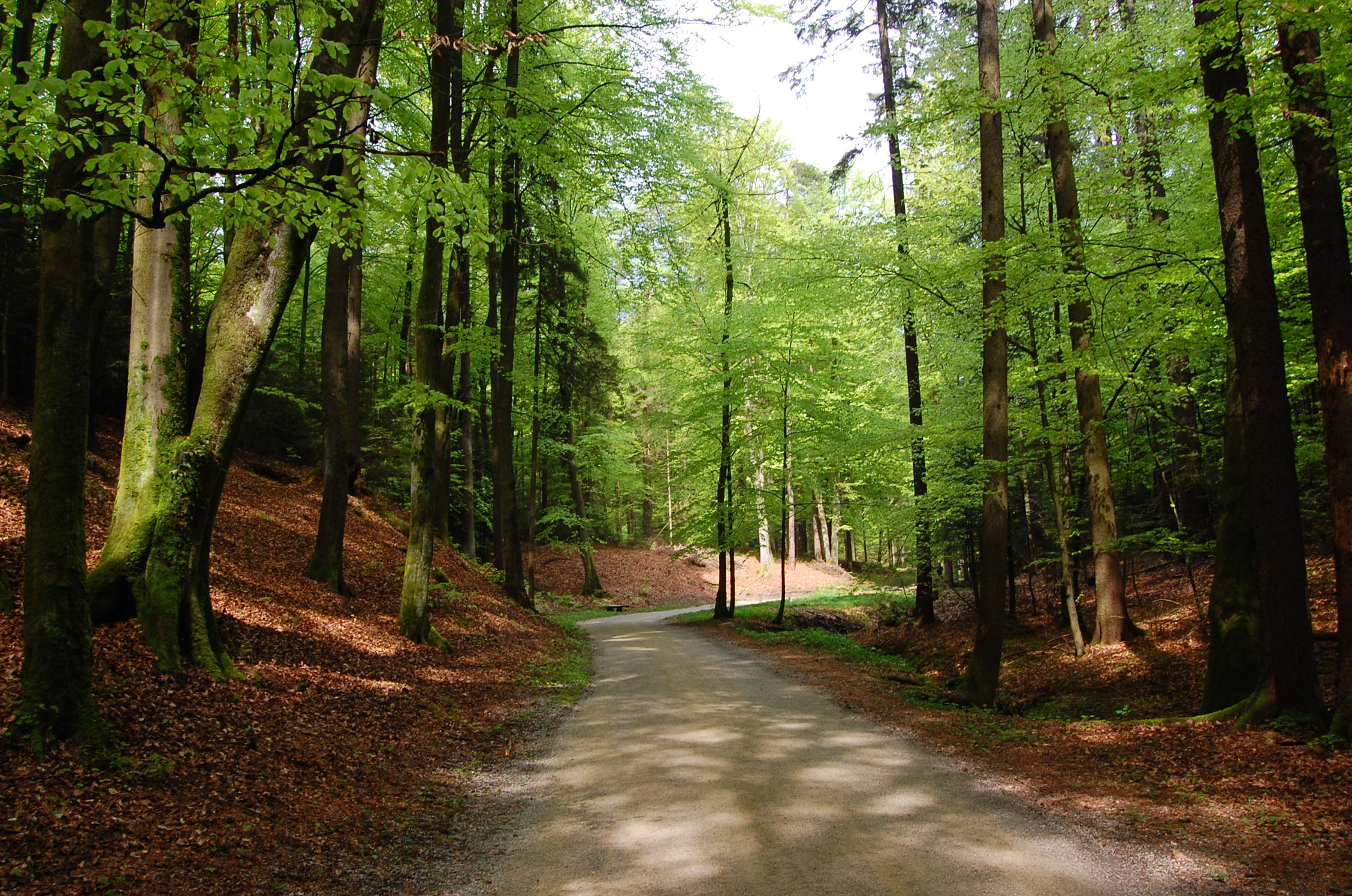 Forest way in Arboretum Volčji Potok (spring 2008)